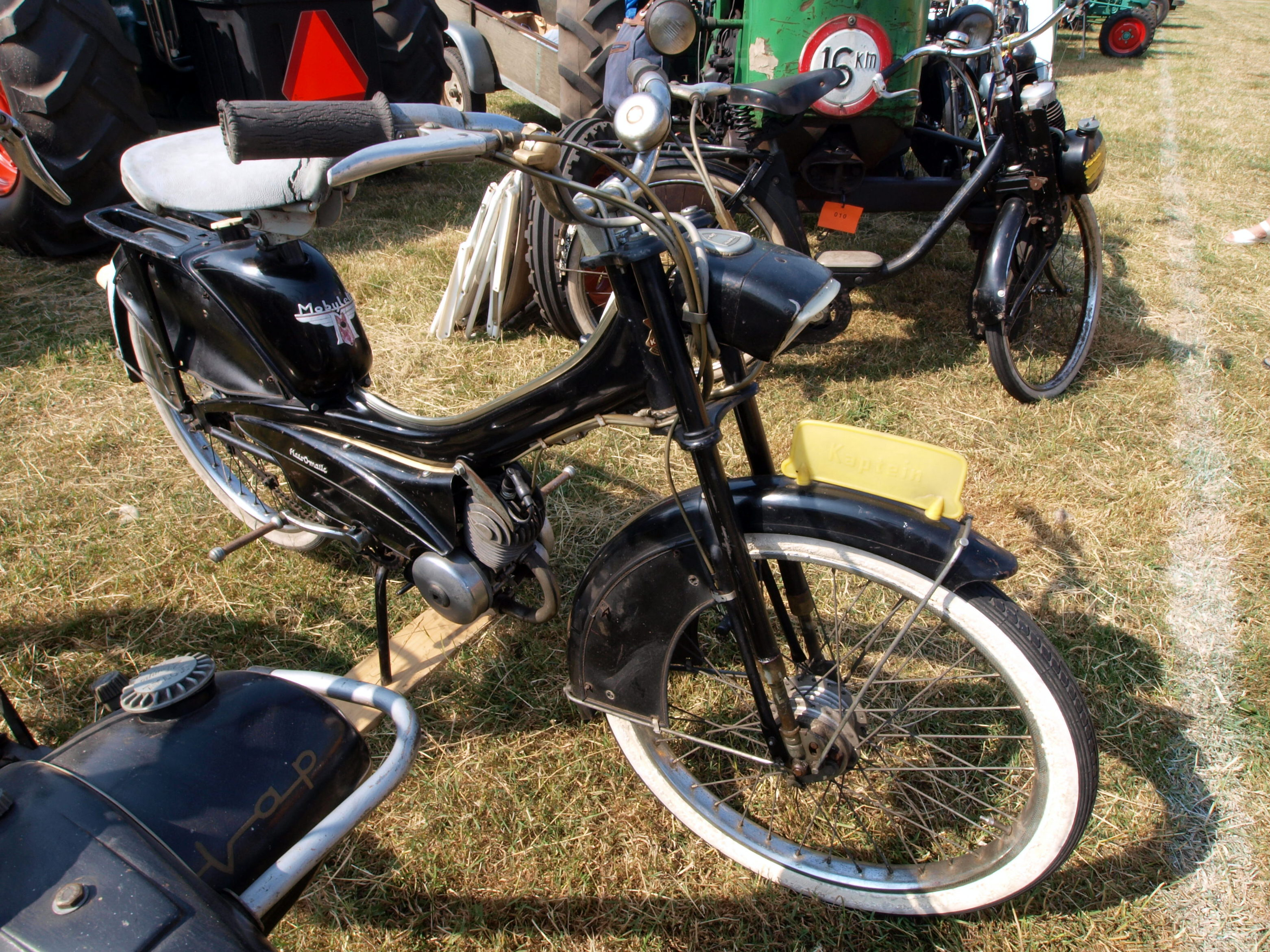 Photographed in The Netherlands. Kaptein Mobylette moped.